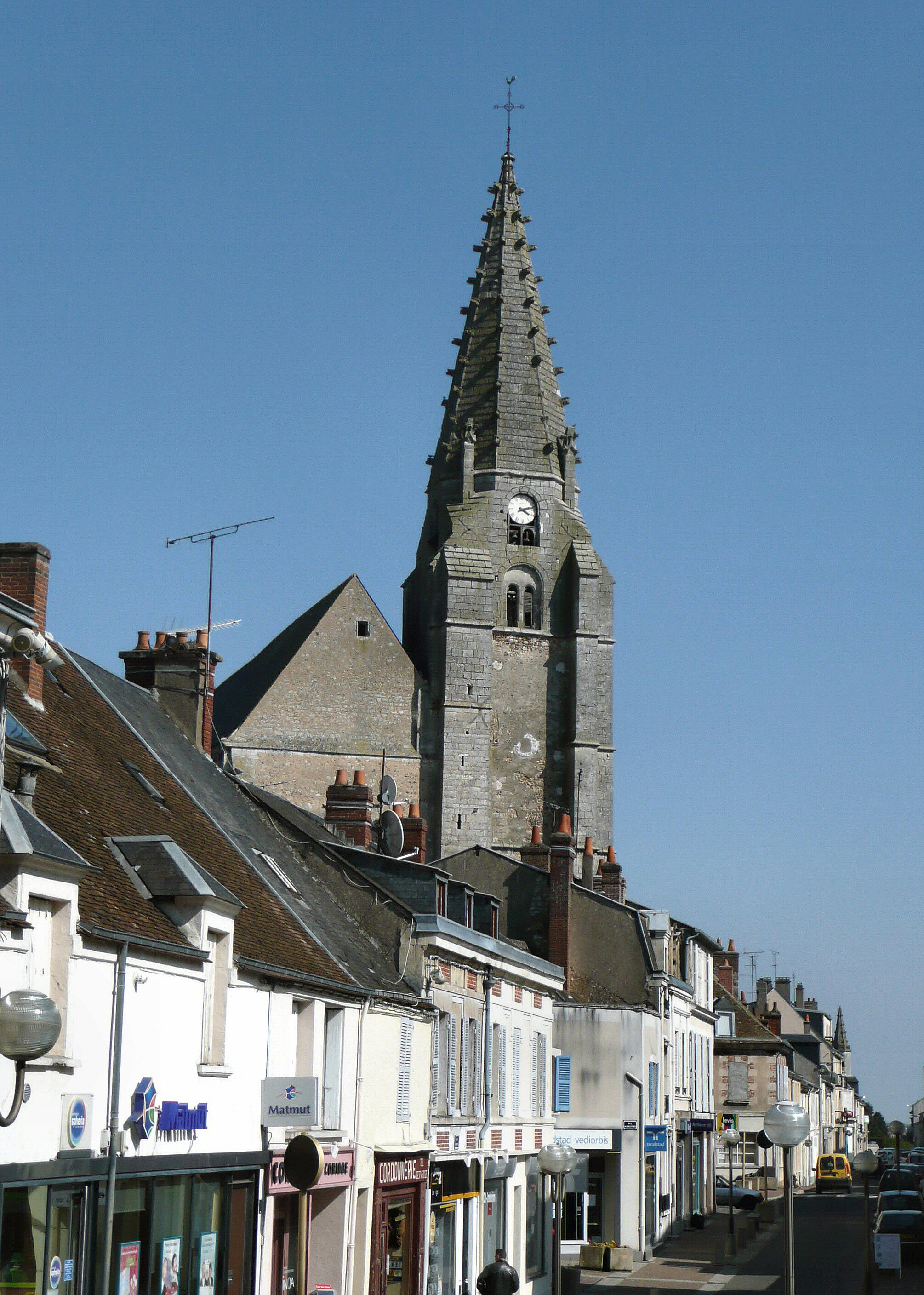 Bell Tower of Saint Valerian Church